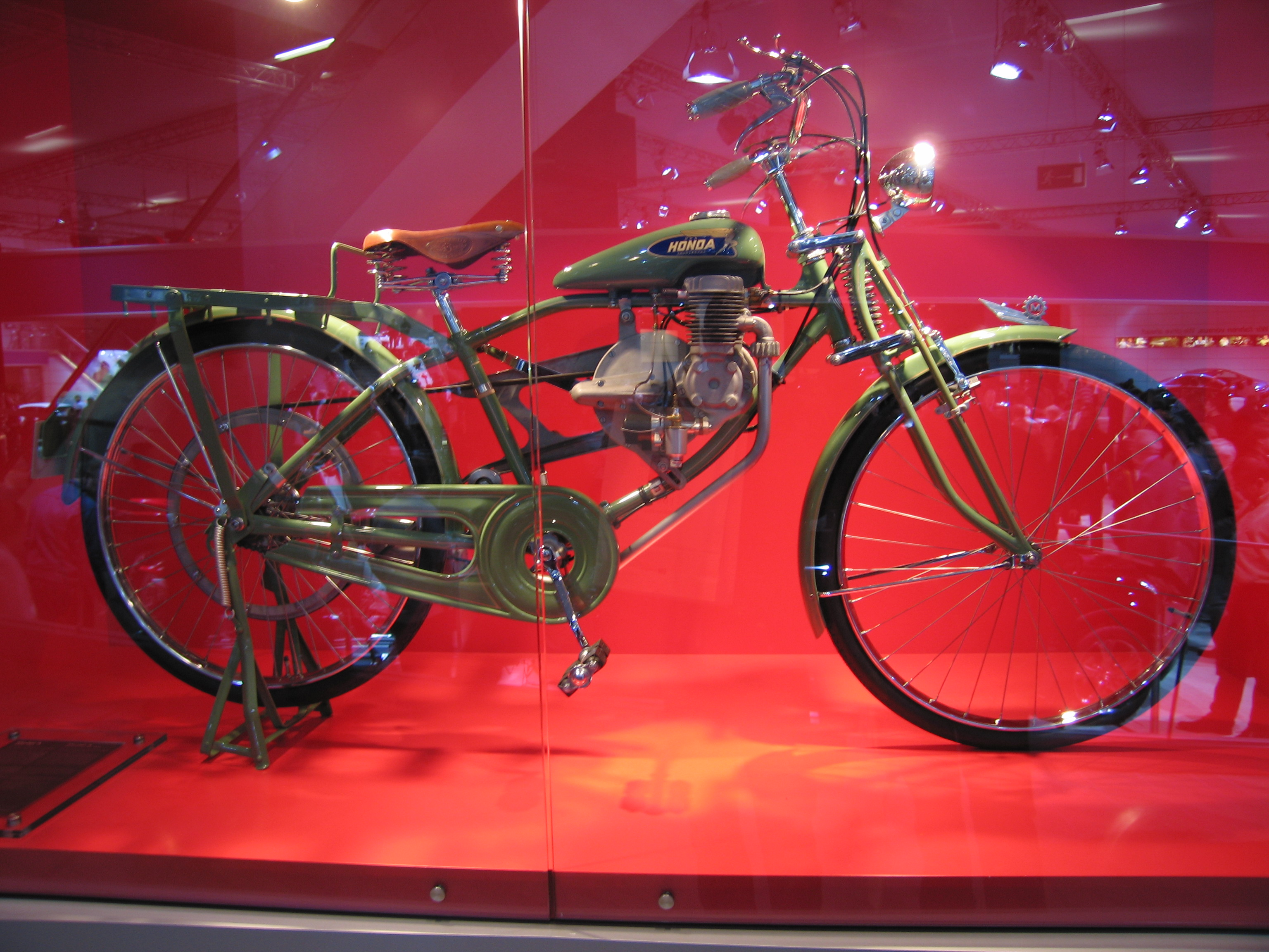 Honda model A at the IAA 2007